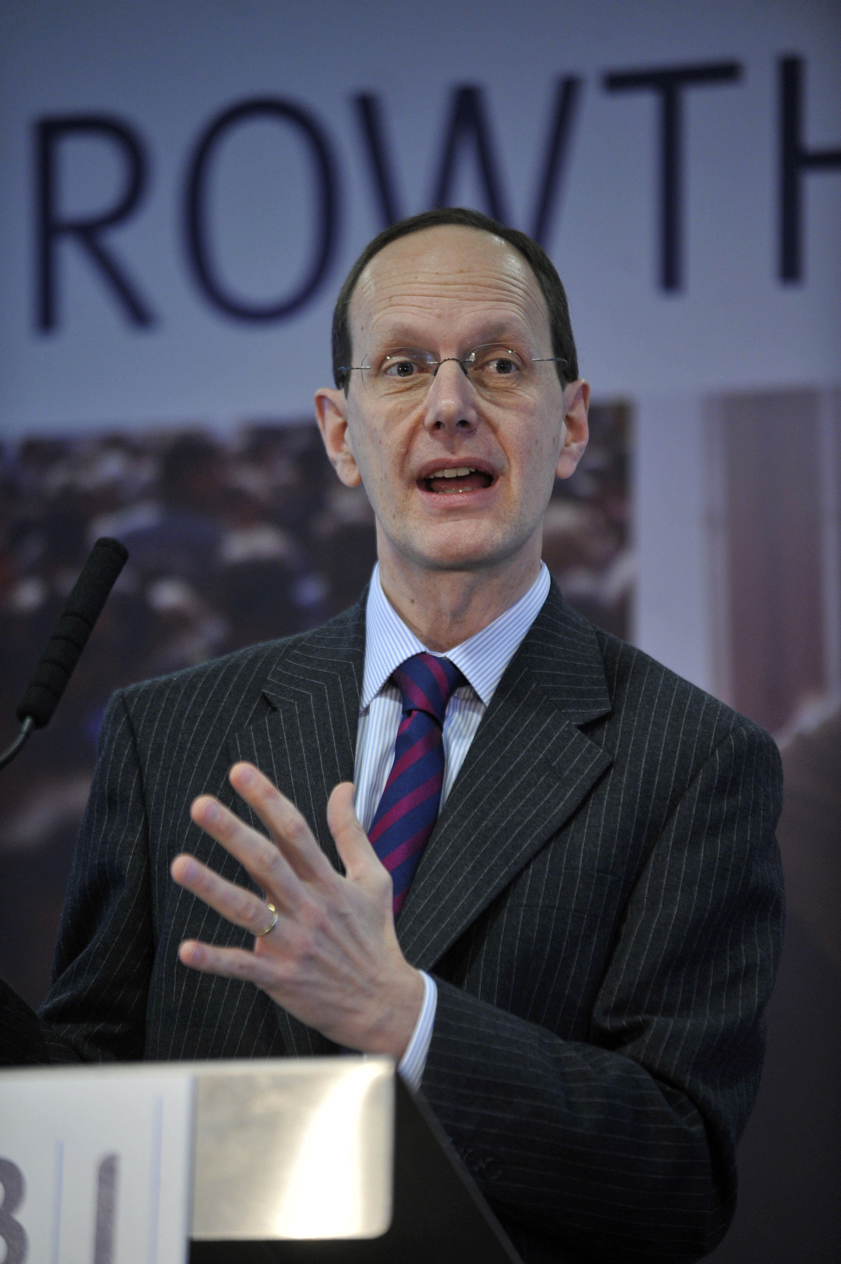 CBI Director General John Cridland speaking on economic growth.